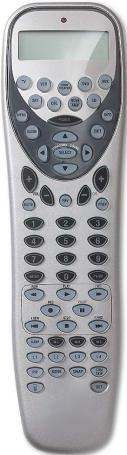 UEI HTPro JP1 Remote Control